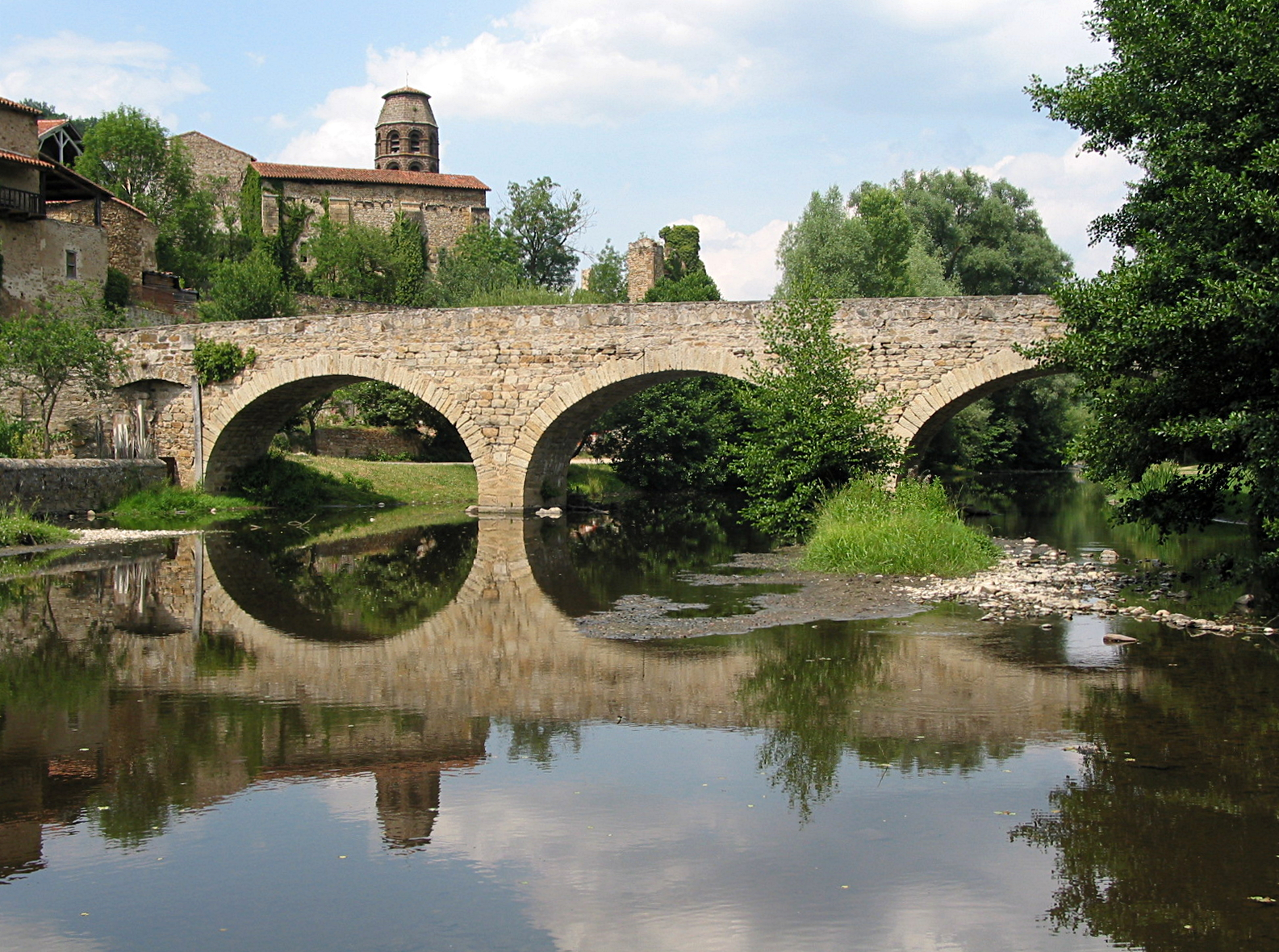 Lavaudieu (Haute-Loire - France), the church of the abbey St. André (XI/XII centuries) and the old bridge on the Senouire